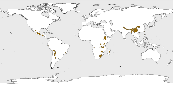 Oceanic climate (Cwb).